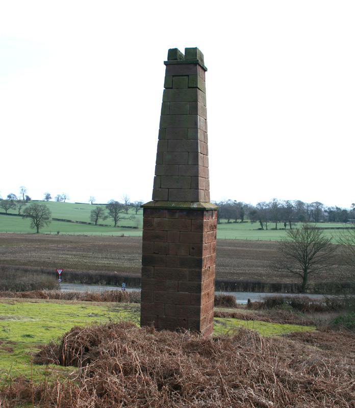 Coppermine chimney at Gallantry Bank, near Bickerton, Cheshire